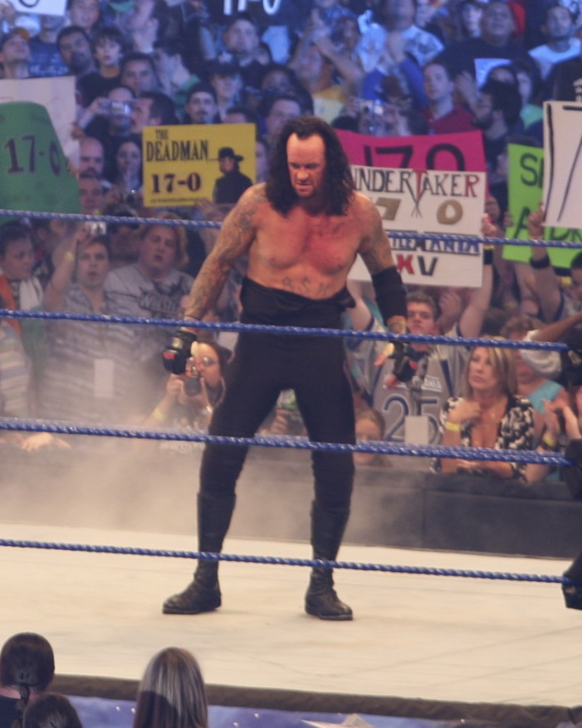 Mark Calaway aka The Undertaker, at Wrestlemania 25 at Reliant Park in Houston Texas 2009